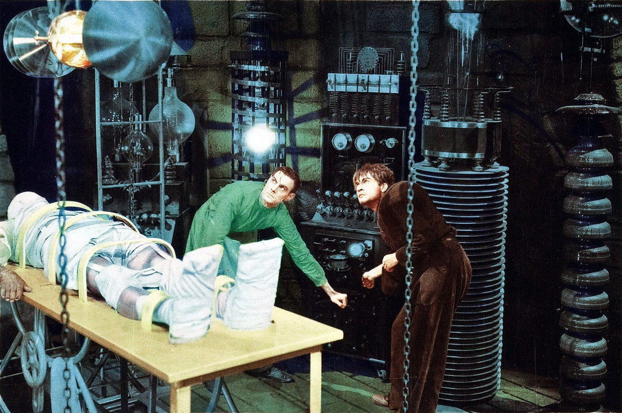 Cropped and edited lobby card for Frankenstein, featuring Colin Clive, DwightFrye and Boris Karloff. Image is assumed to be in the public domain as no copyright is in evidence.